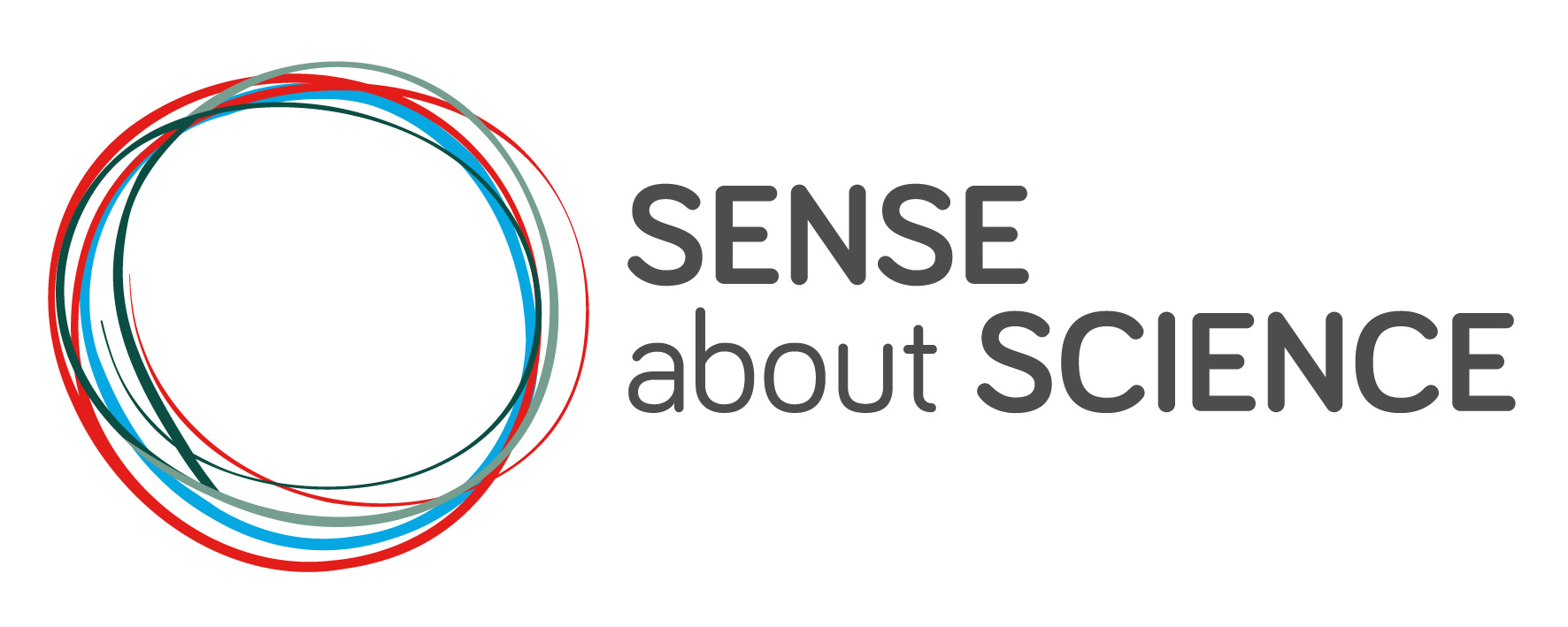 The Sense about Science logo as of 2016